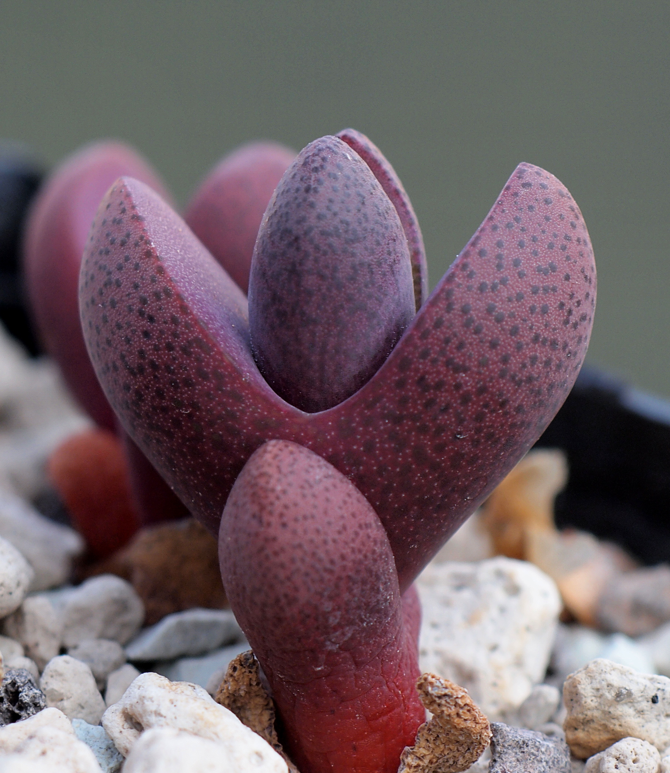 Pleiospilos nelii 'Royal Flush'